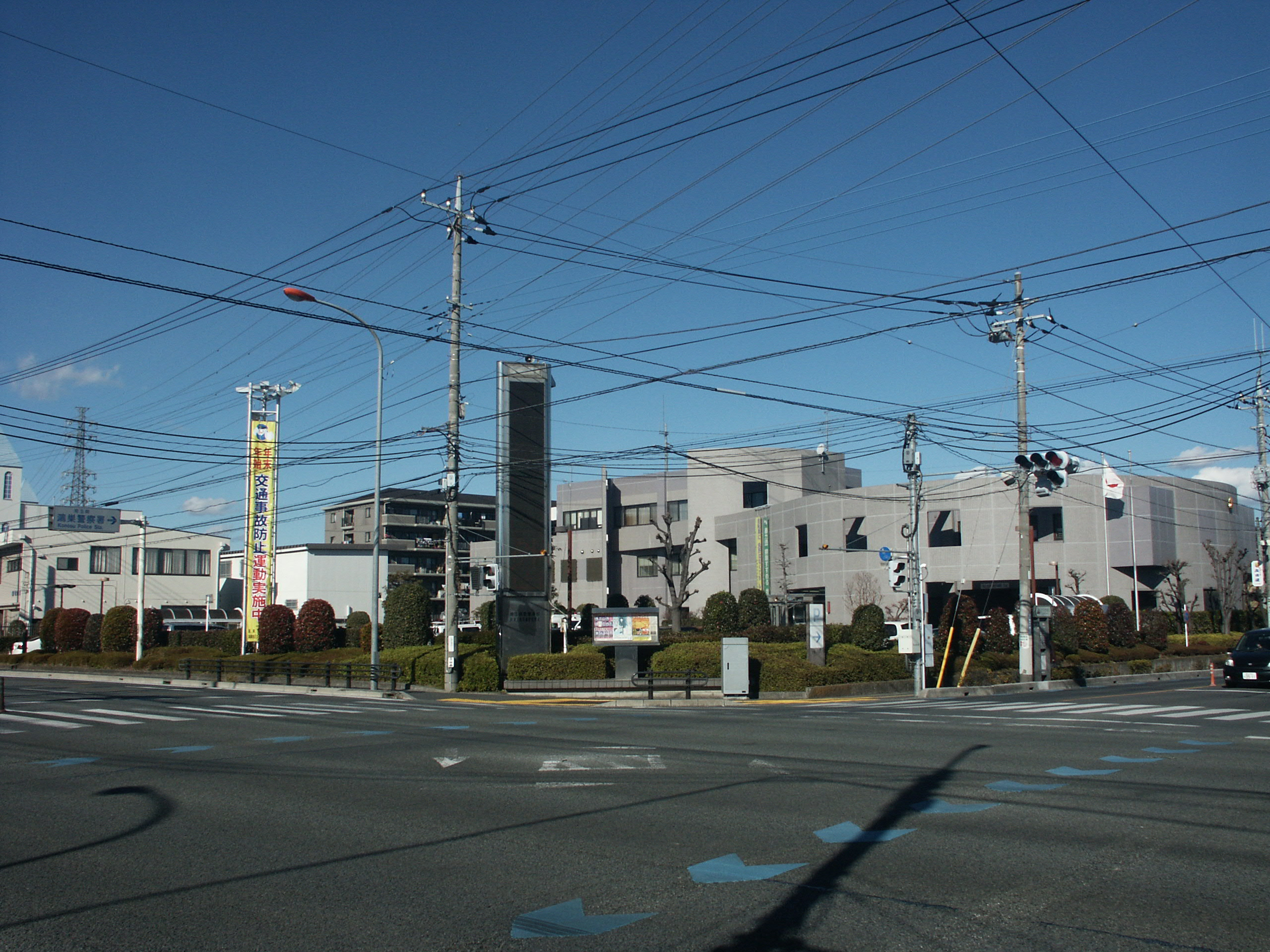 Saitama Prefectural Police Konosu Police Station